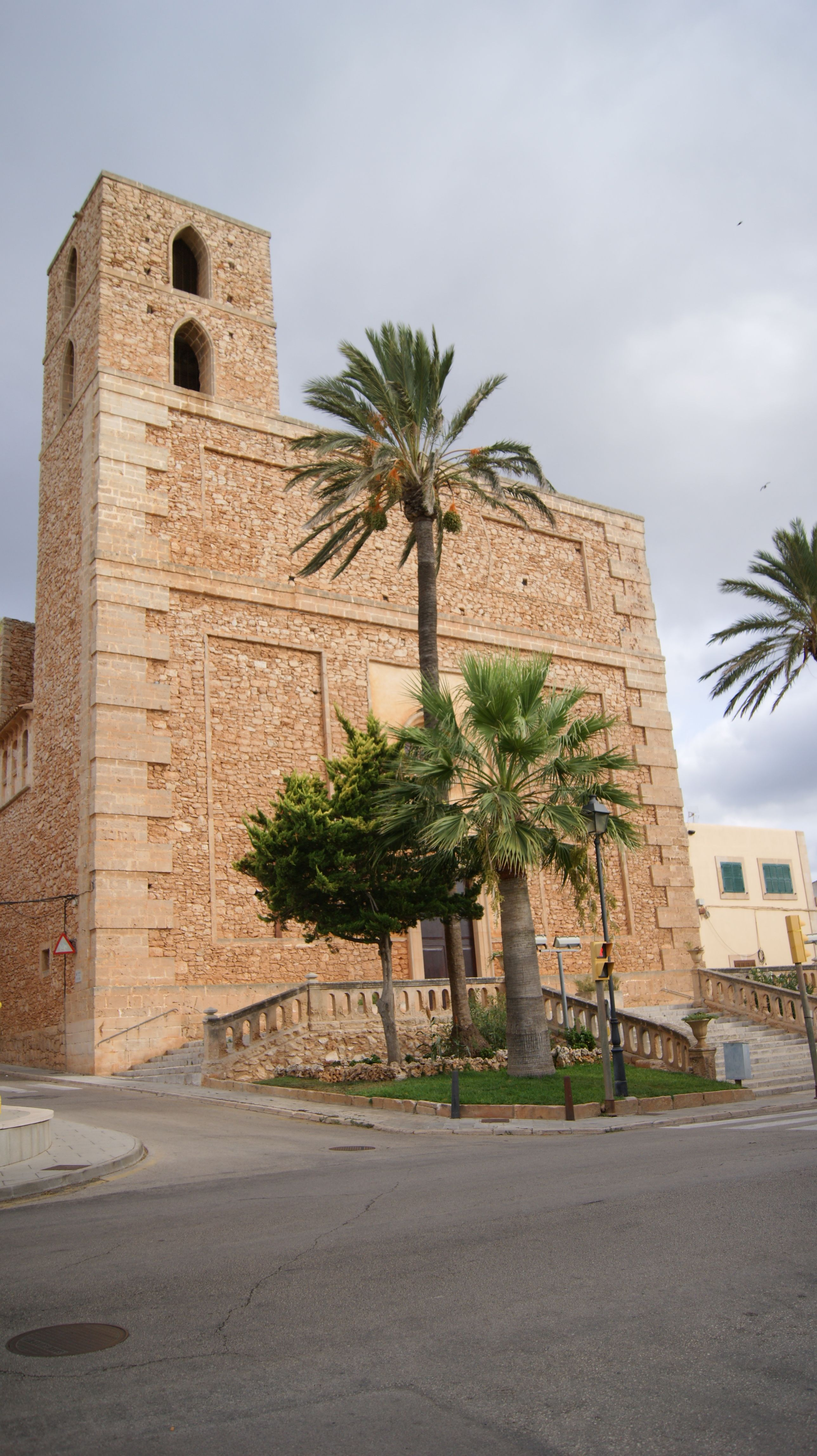 Church in s'Horta, municipality Santanyí on Mallorca.